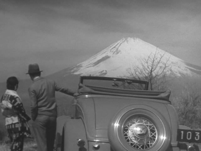 Setsuko Shinobu and Sōzō Okada (as Hikaru Yamanouchi) in Kagiri naki hodo (限りなき舗道) directed by Mikio Naruse - 1934